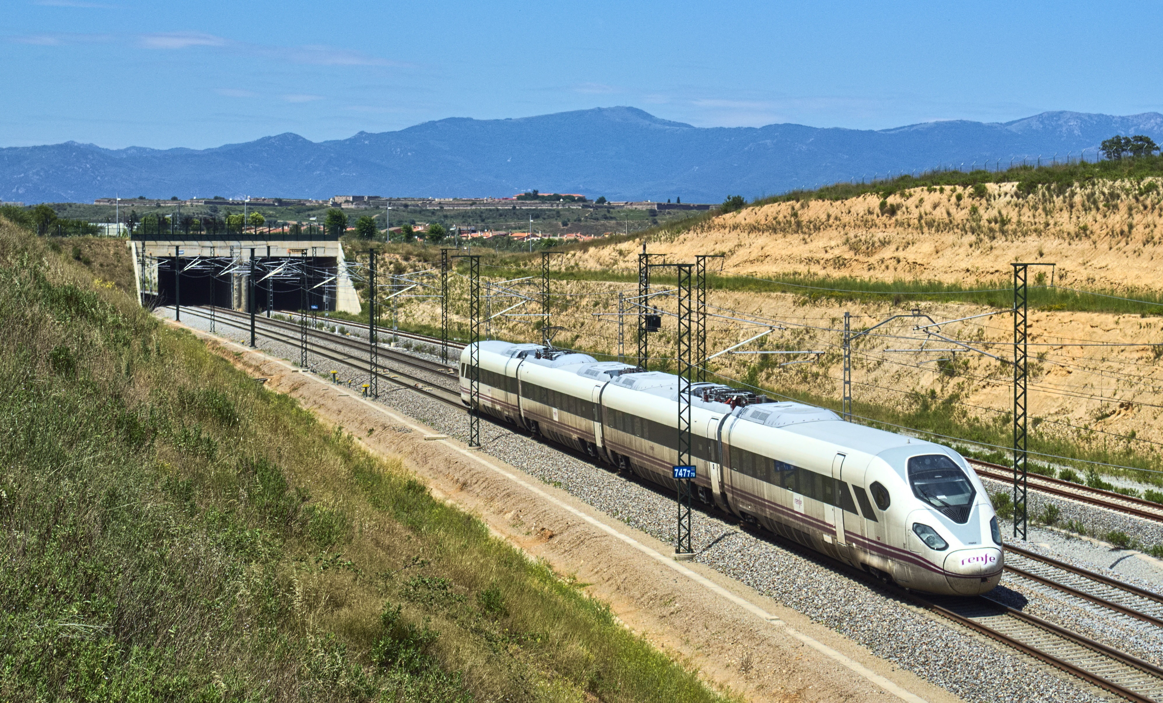 CAF Oaris on test runs in the proximity of Vilafant (Girona)